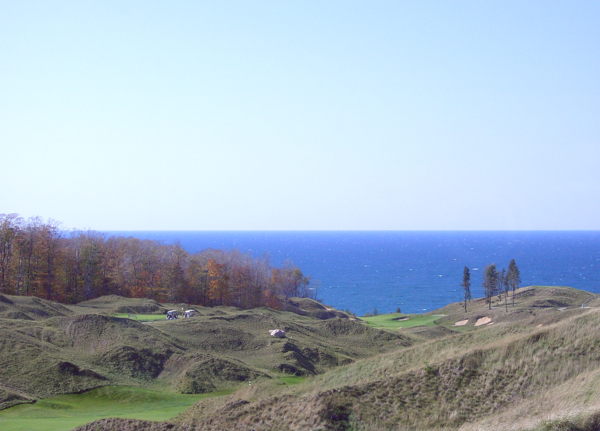 Picture of Arcadia Bluffs Golf Course in Arcadia, Michigan. Photo was taken from the clubhouse and overlooks the 10th and 11th holes, as well as Lake Michigan. See below for licensing (CC-BY-SA-3.0 and GFDL)